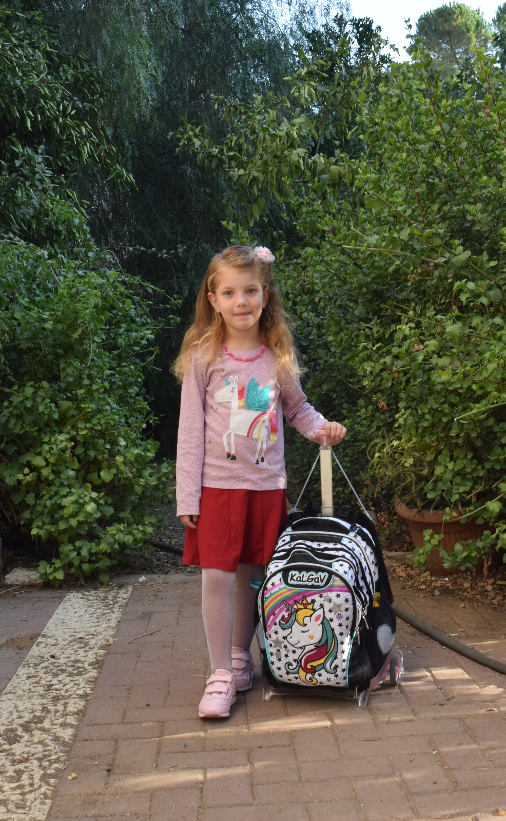 A six-year-old girl at the first entrance to the school. Noam Schoolyard, Jerusalem, Israel.